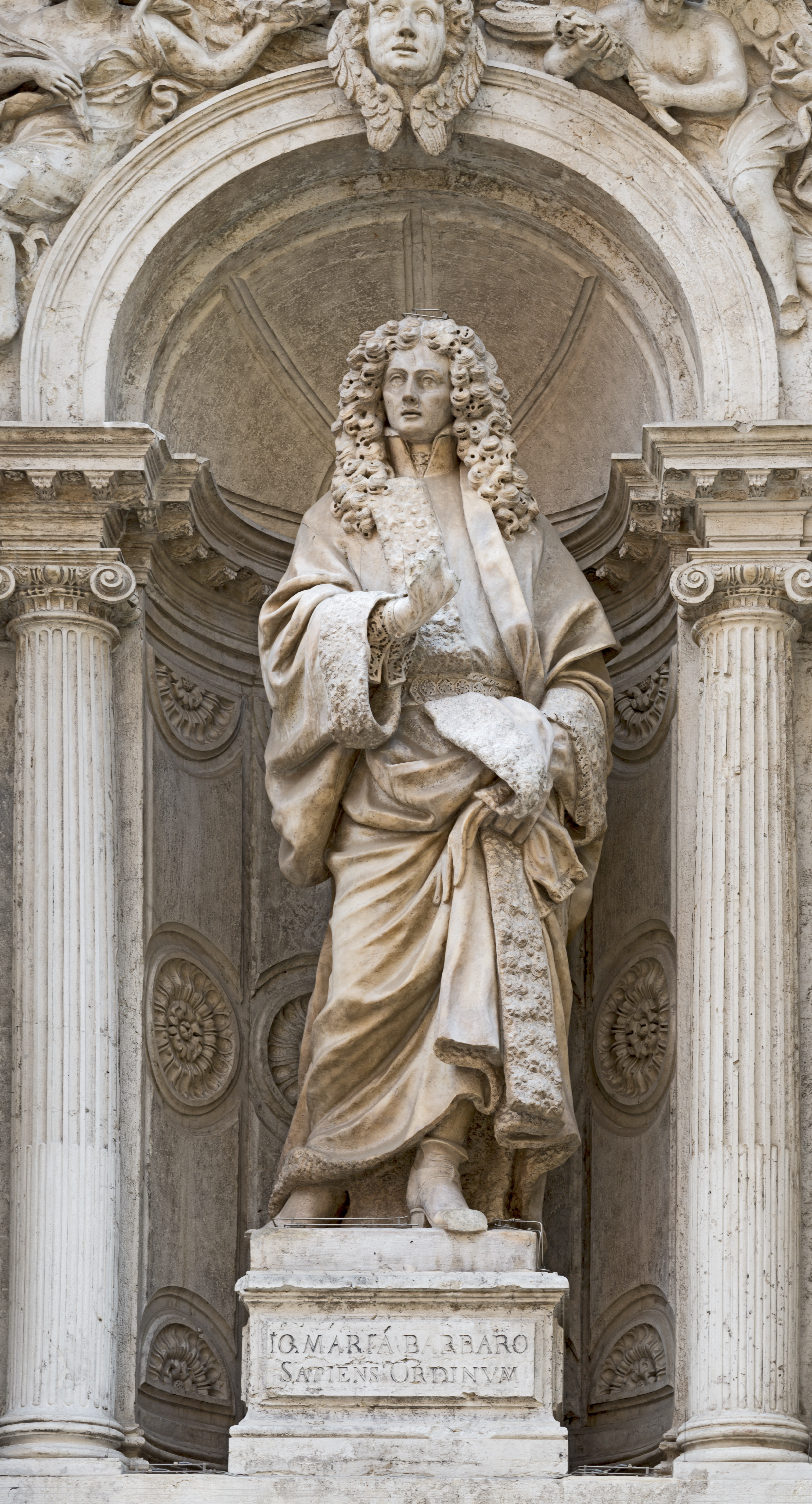 Church Santa Maria del Giglio in Venice Facade - Statue of Giovanni Maria Barbaro attributed to Enrico Merengo.